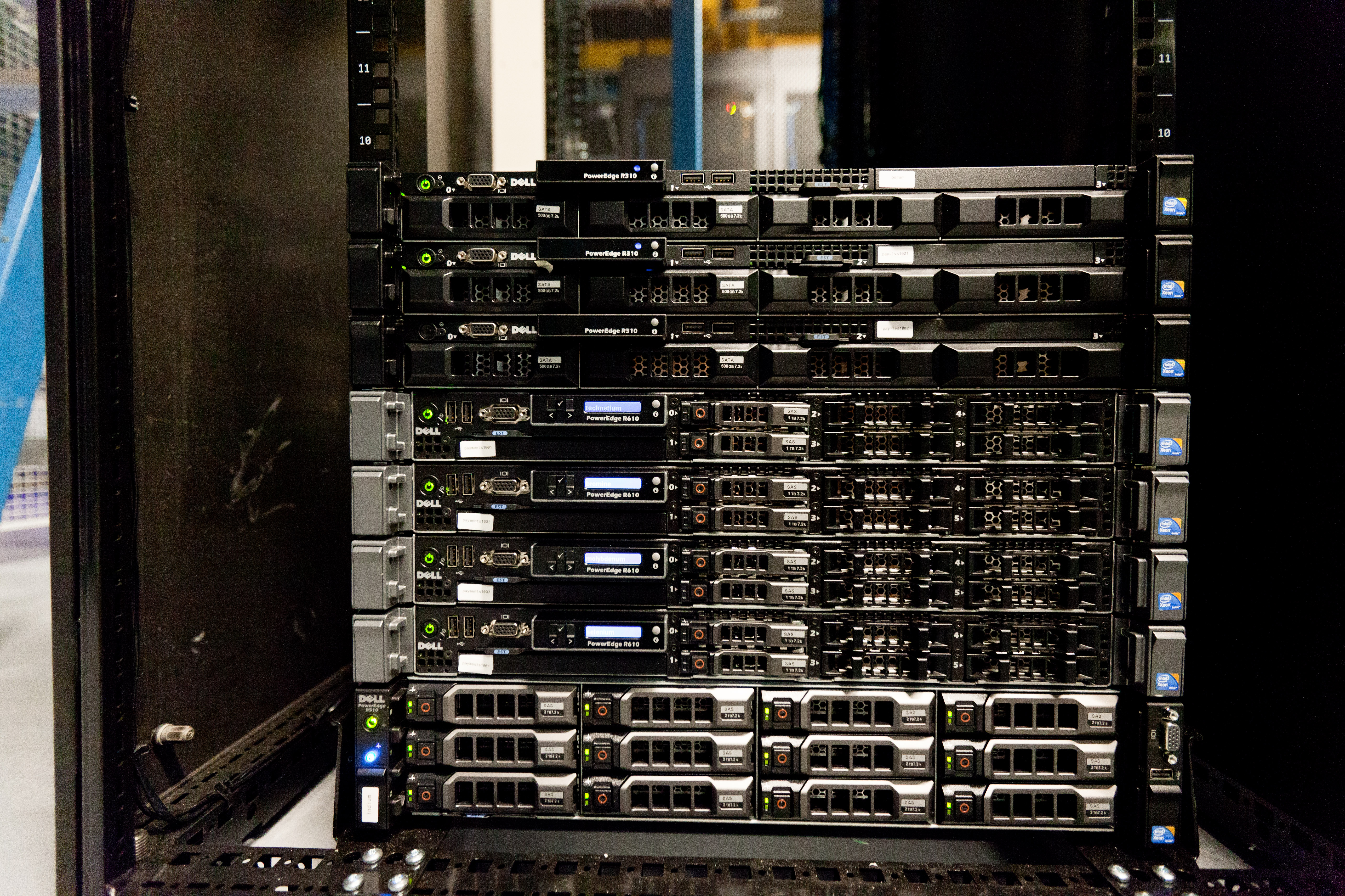 Wikimedia Servers